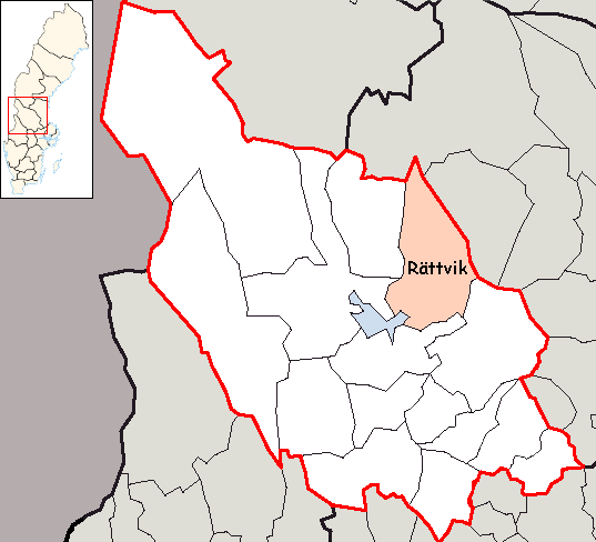 Rättvik Municipality in Dalarna County Designd by me, based on Image:Dalarna County.png